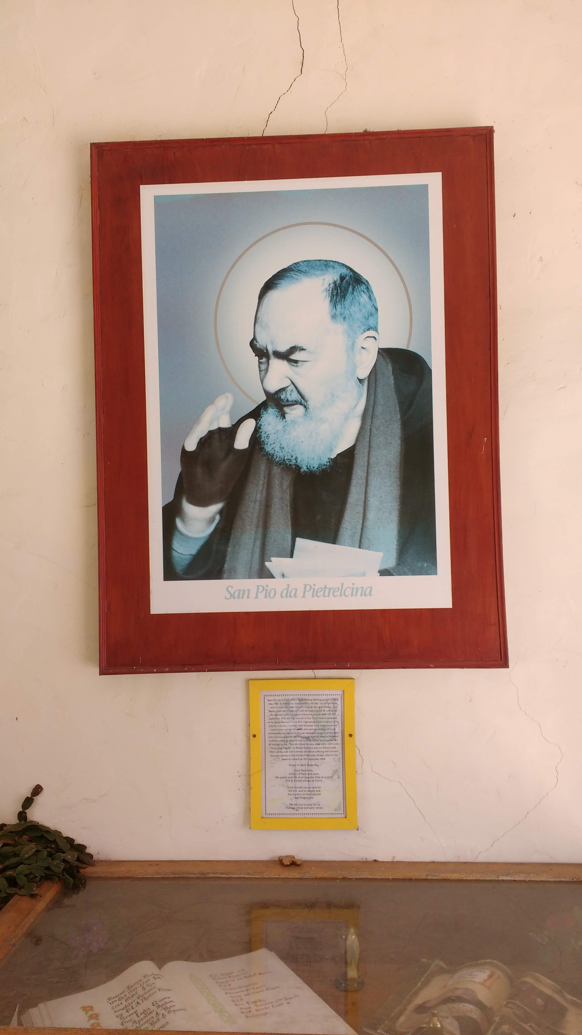 St Padre Pio